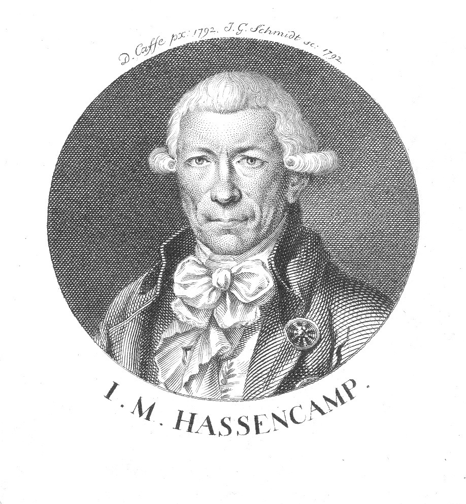 Johann Mathäus Hassencamp, Theologician, Mthematician, Orientalist